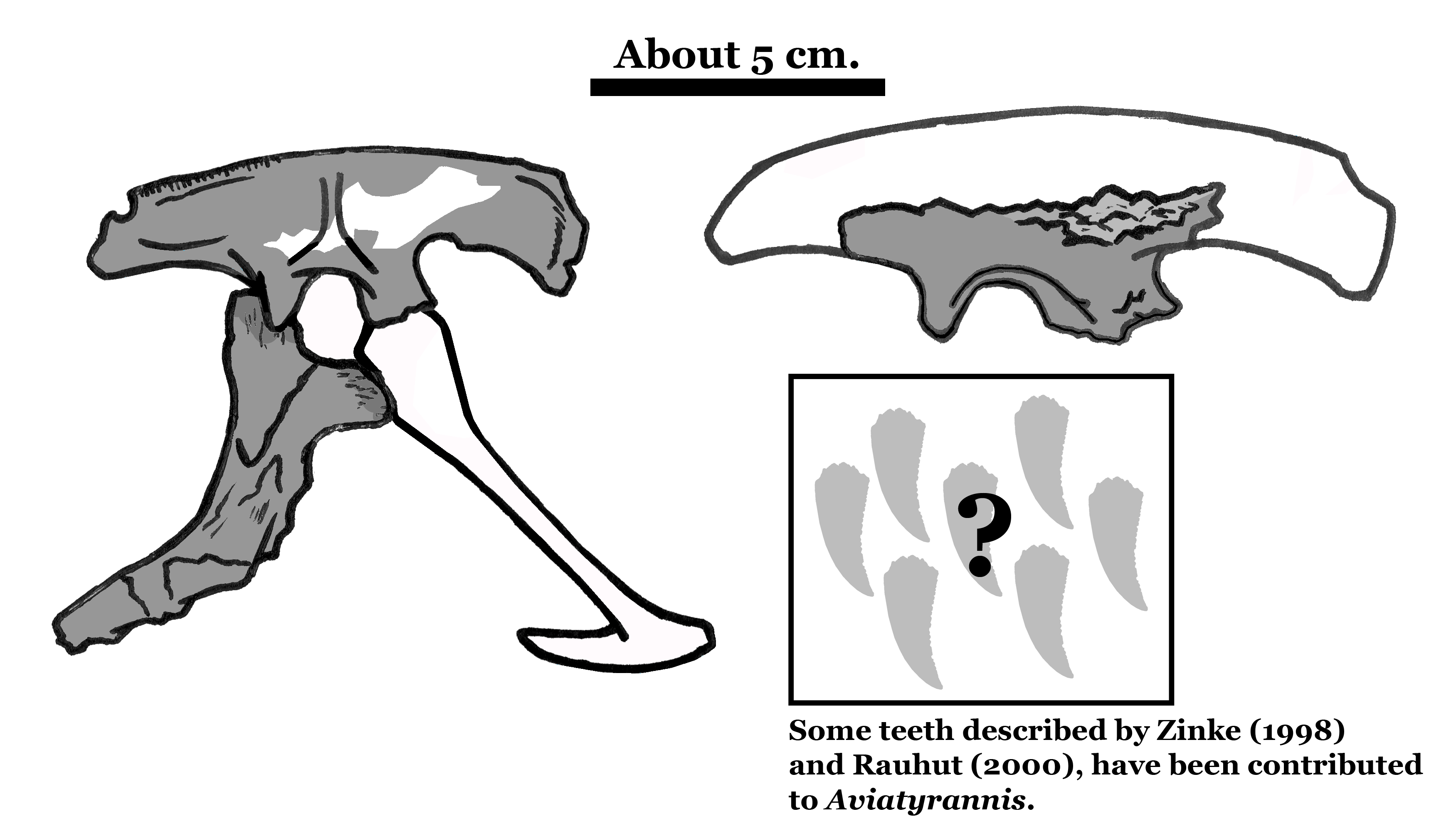 Known fossil pieces after Aviatyrannis jurassica (Dinosauria, Theropoda, Coelurosauria, Tyrannosauroidea).[1] Sources ↑ Rauhut O.W.M. (2003), "A tyrannosaurid dinosaur from the Upper Jurassic of Portugal", Paleontology 46(5): p. 903-910.